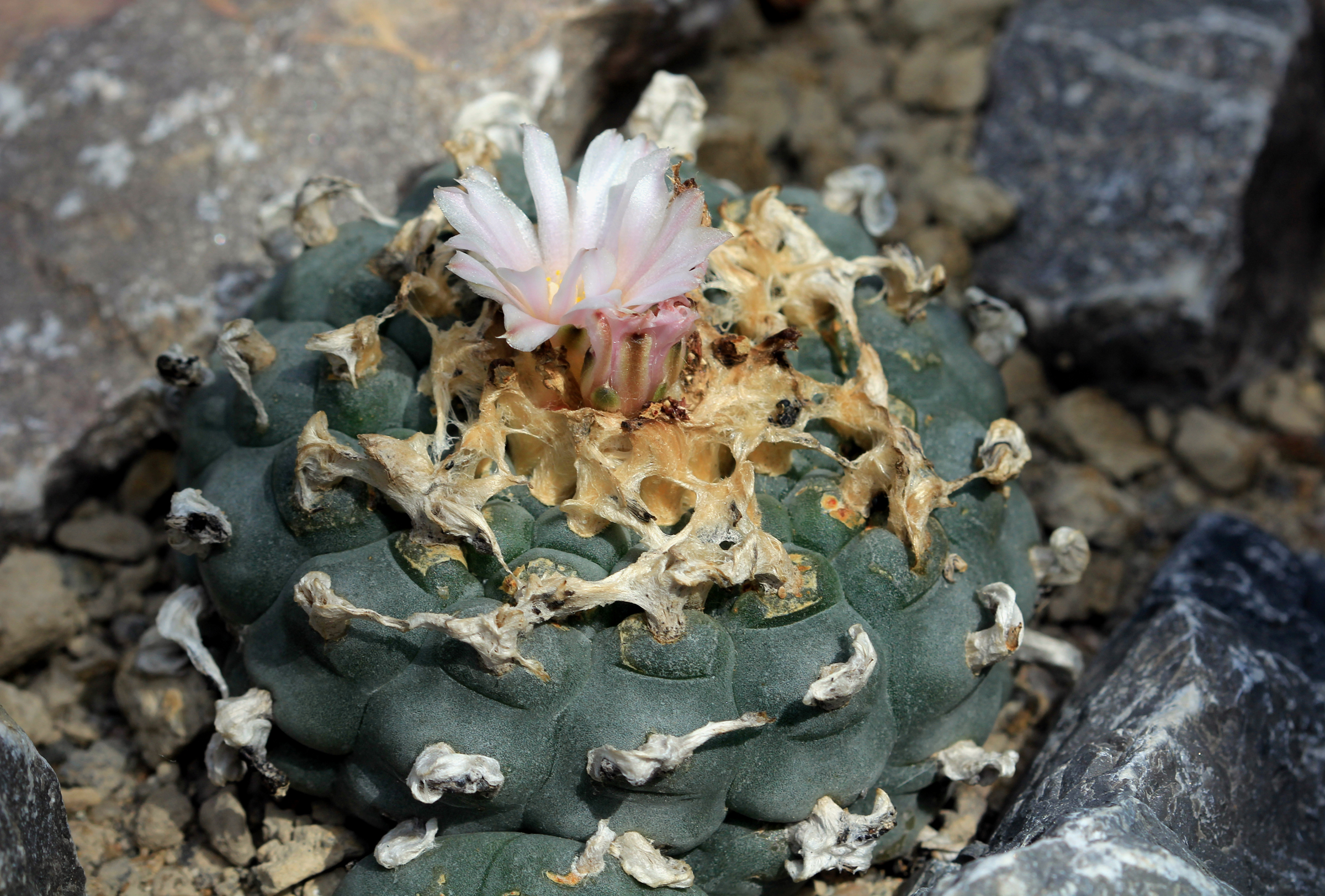 Cactus Peyote, Lophophora williamsii, The Botanical Gardens of Charles University, Prague, Czech Republic